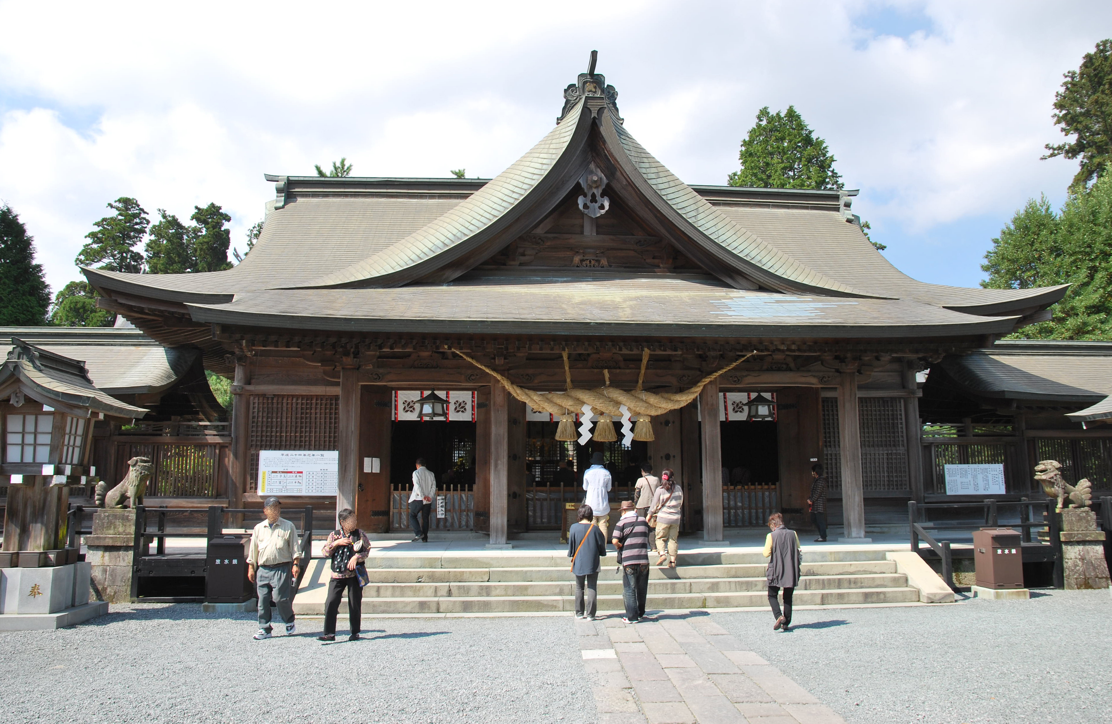 Front shrin, Aso-jinja